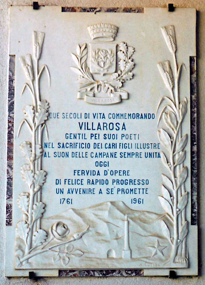 Plaque at Villarosa City Hall